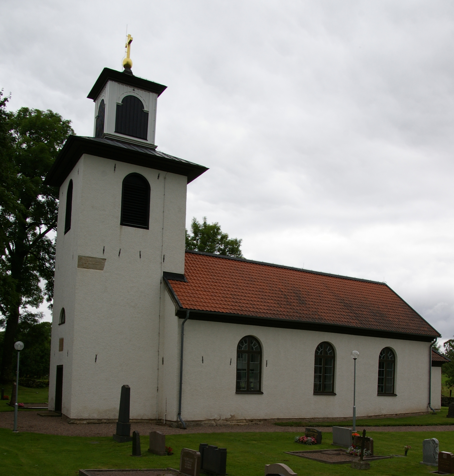 Håkantorps kyrka (Swedish:Church of Håkantorp) in Västergötland, Sweden.